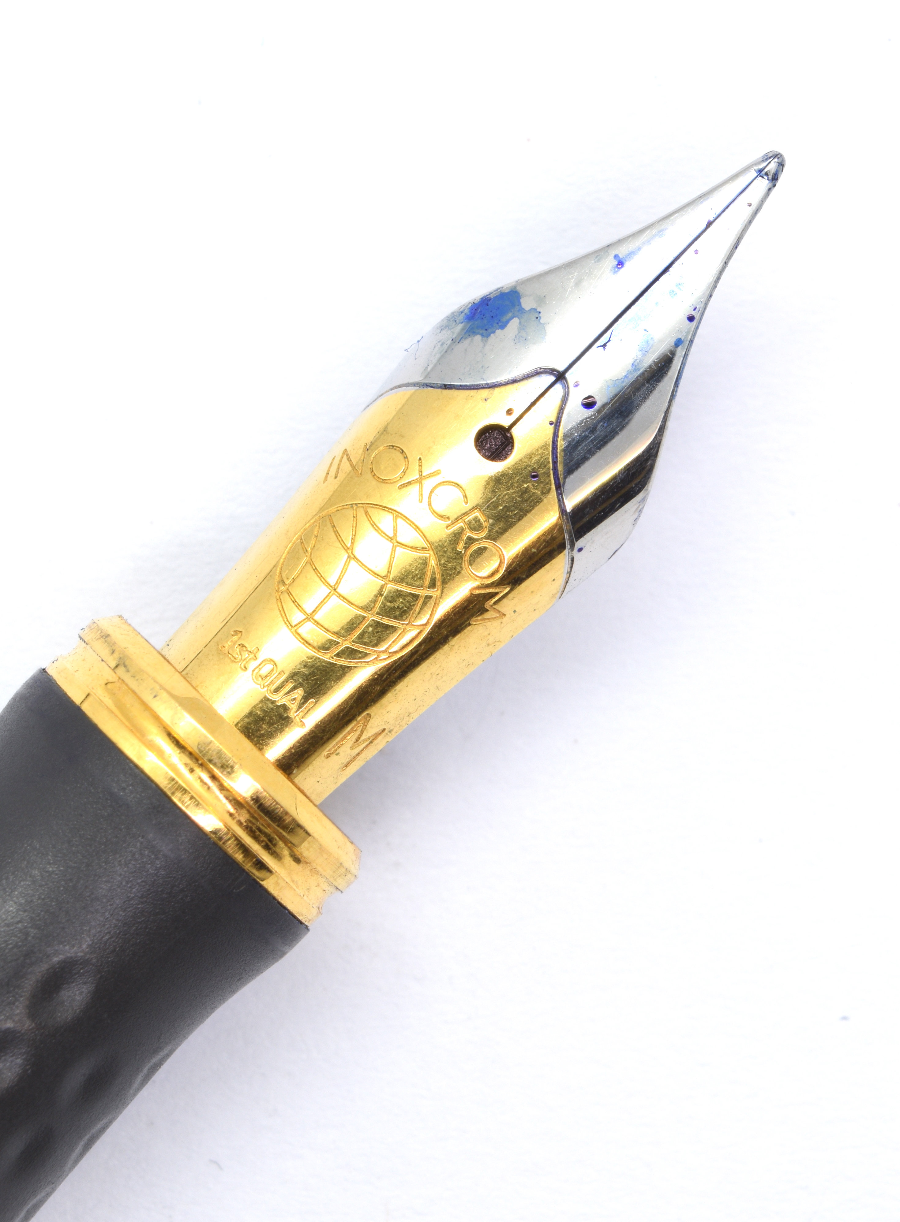 Inoxcrom Wall Street. Nib. M